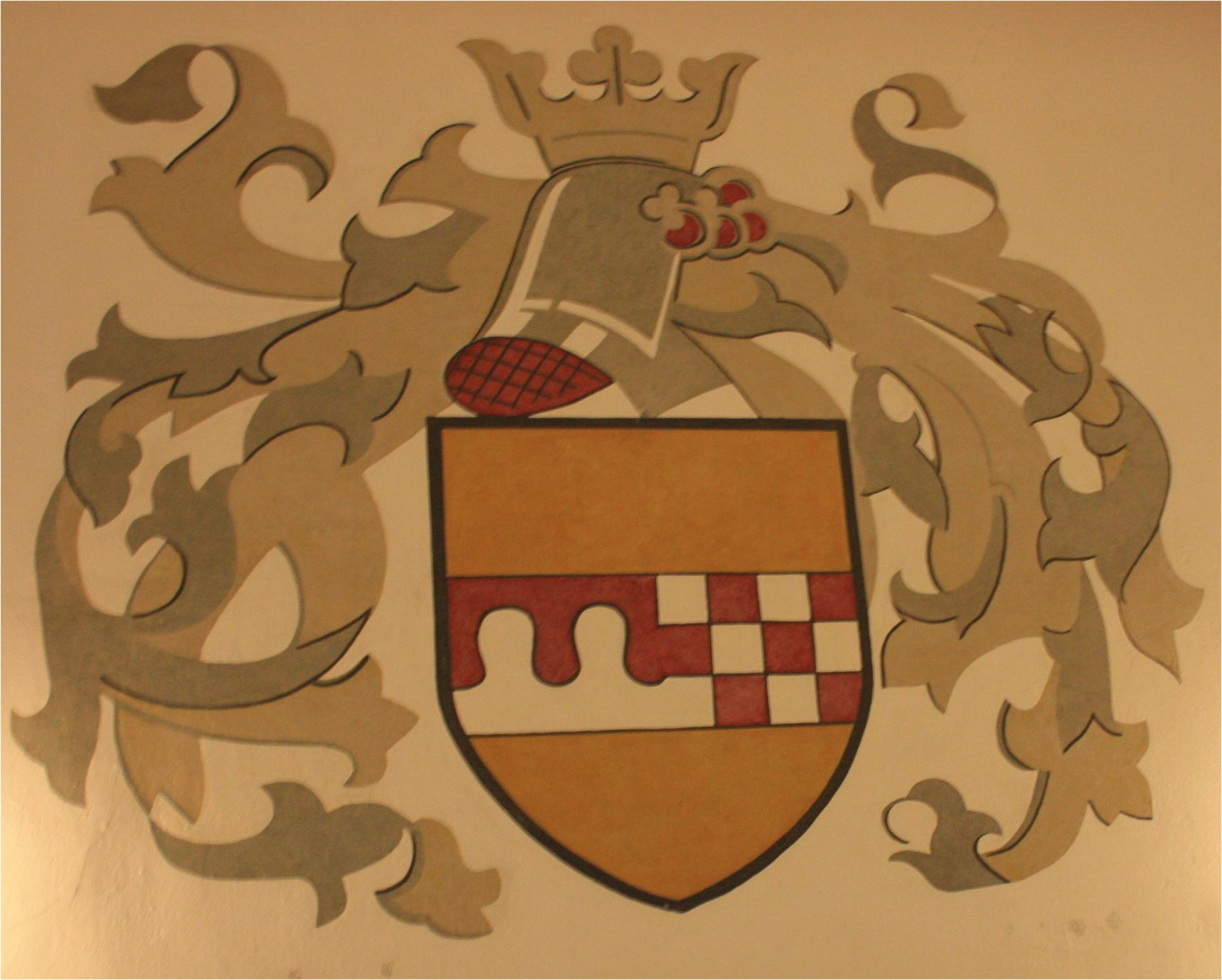 Holten coat of arms with crest on the wall of the ballroom at Kastell Holten (Holten castle)